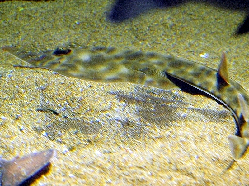 Yellow guitarfish (Rhinobatos schlegelii)